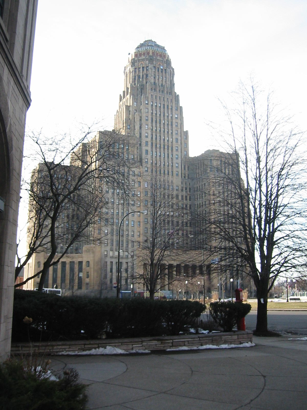 Buffaly City Hall, NY